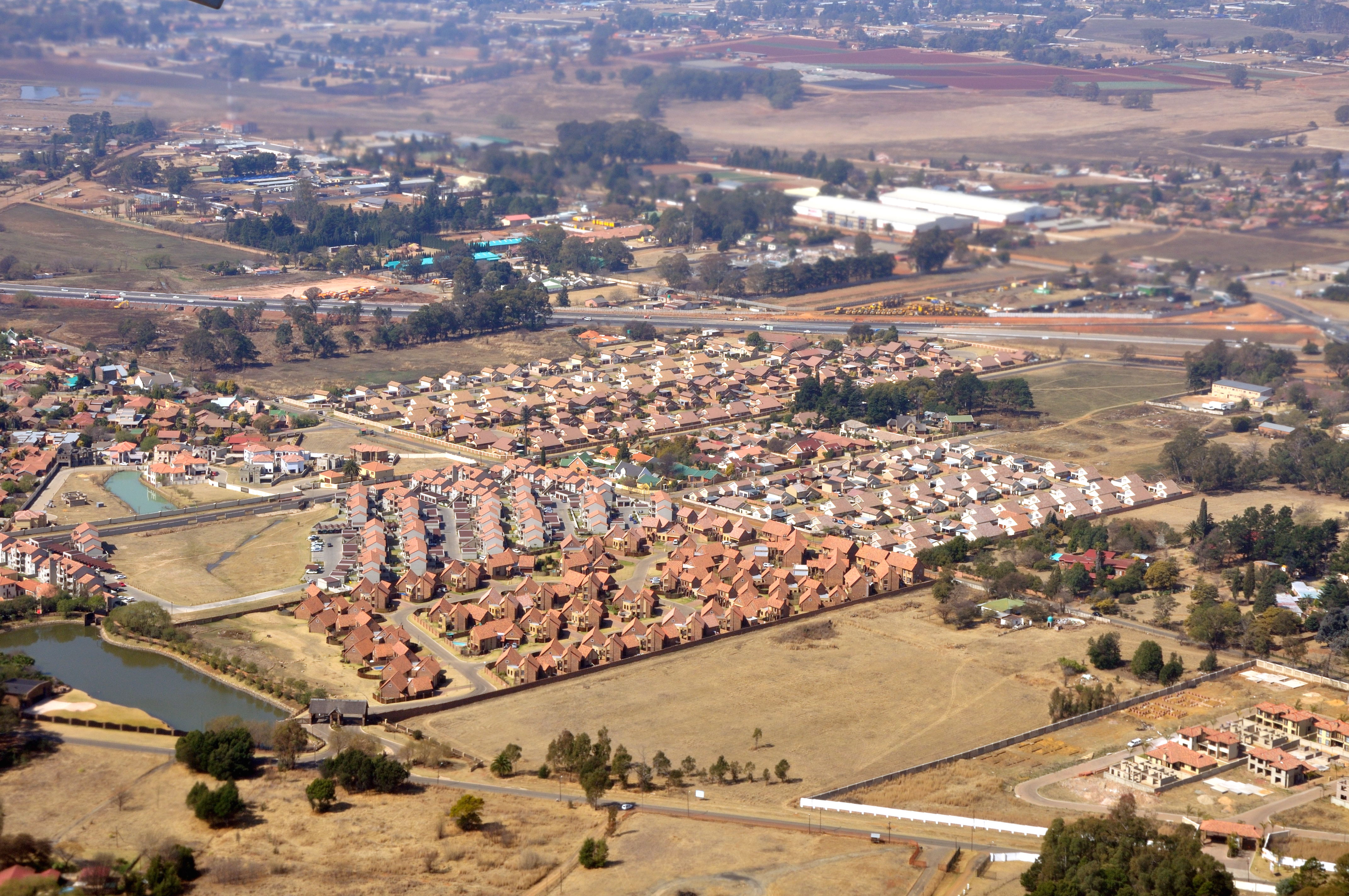 South Africa, Tembisa Extension, Kempton Park